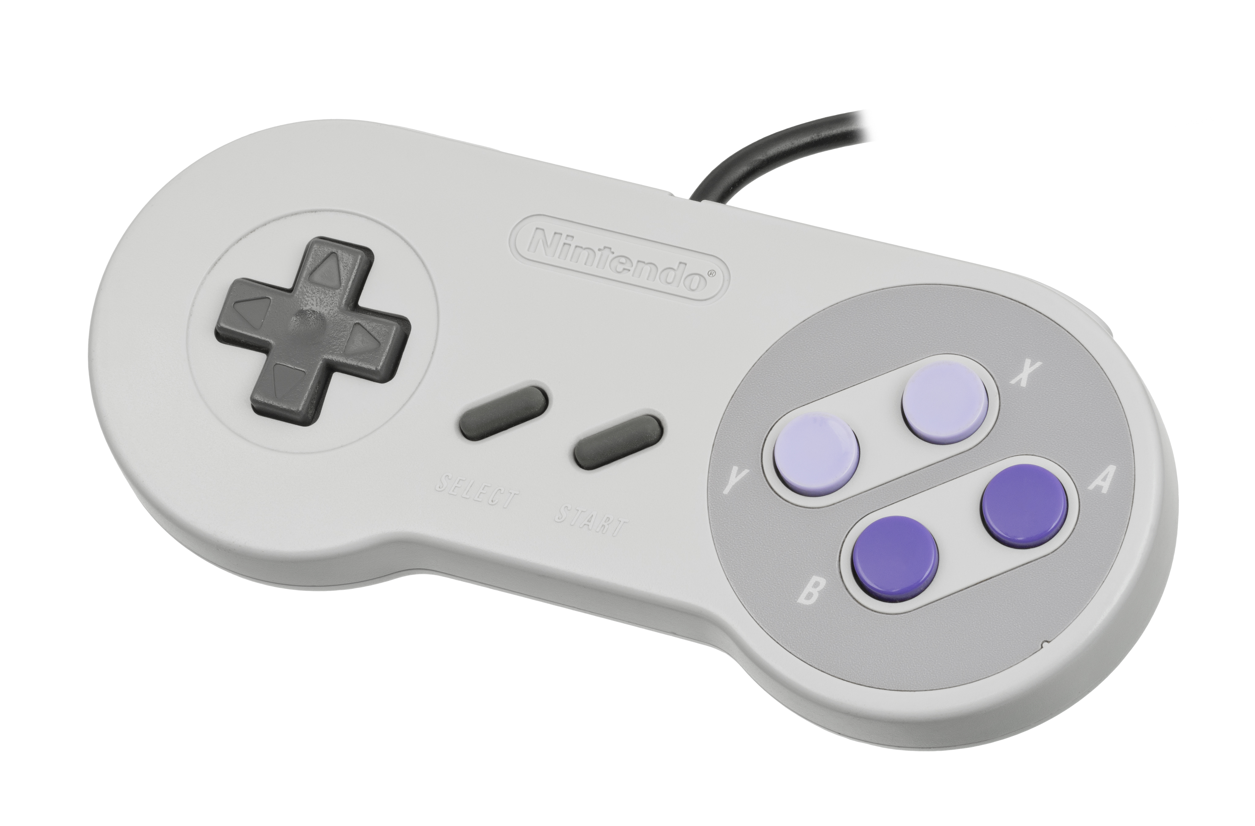 The alternate controller for the Super Nintendo (SNES) video game console. This version was shipped with the SNS-101 variant, and features embossing rather than silkscreening for start, select and the console name.